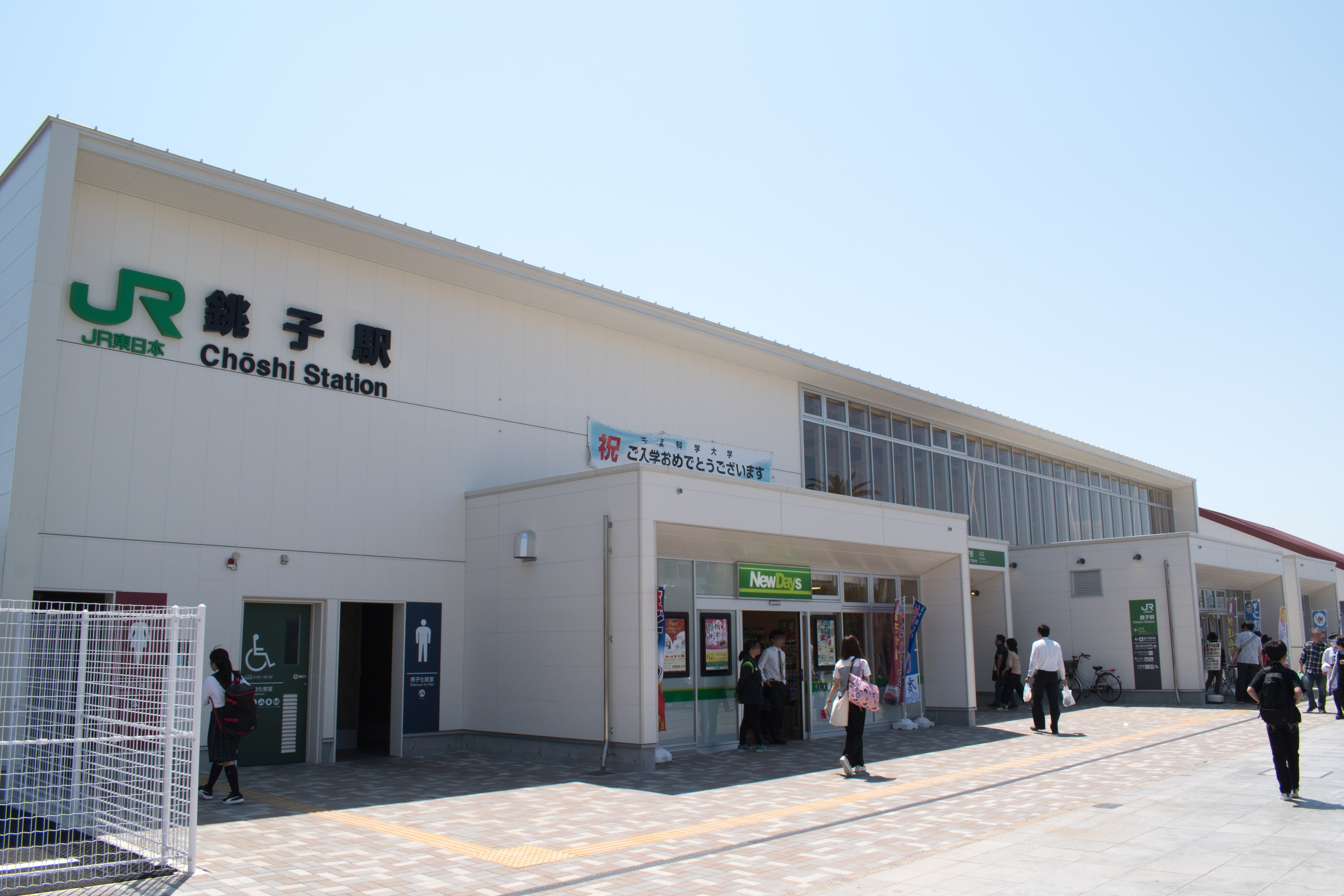 Exterior of the JR East Chōshi Station in Chōshi City, Chiba Prefecture, Japan.